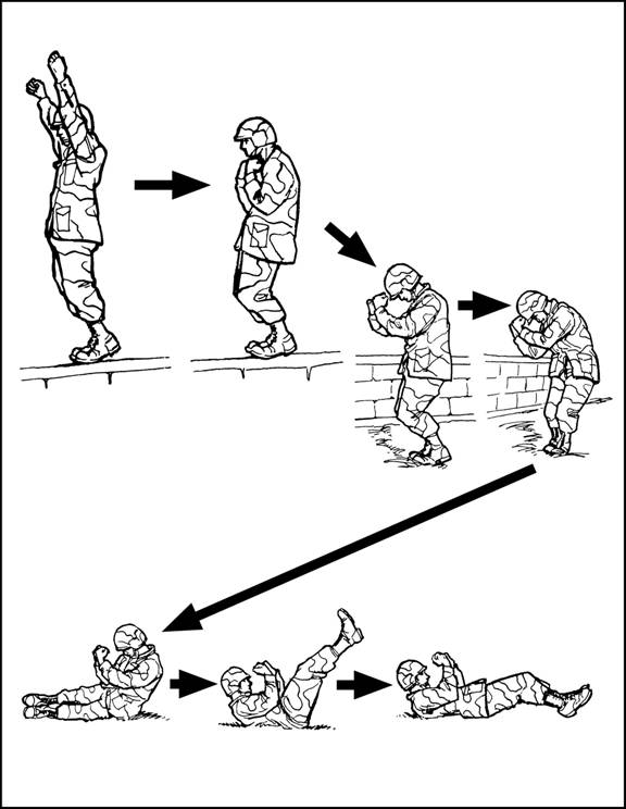 Diagram showing action sequence during parachute landing fall practice